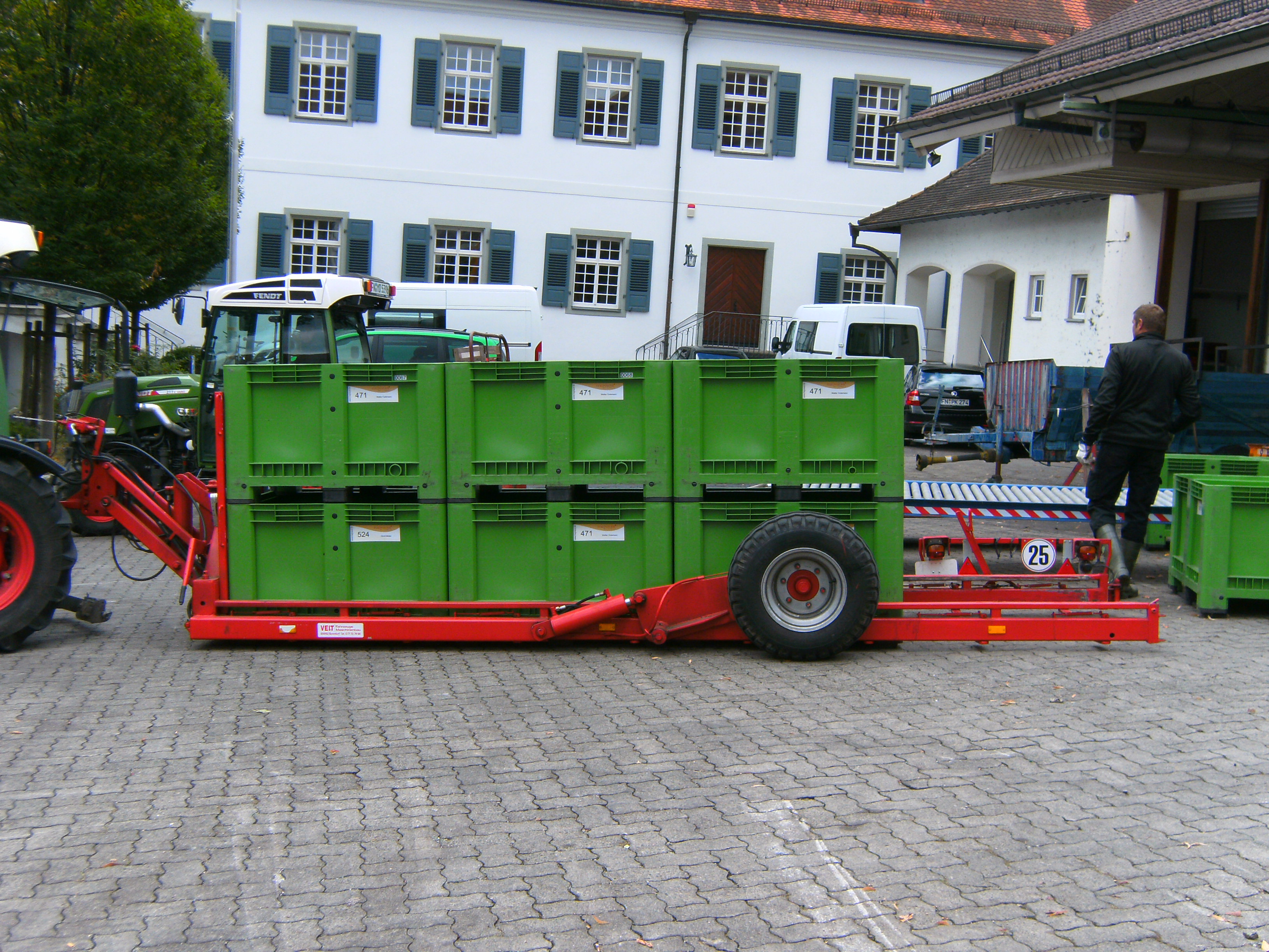 Hagnau am Bodensee, Germany, Winzerverein (winemaking cooperative): delivery of grapes in paletts.